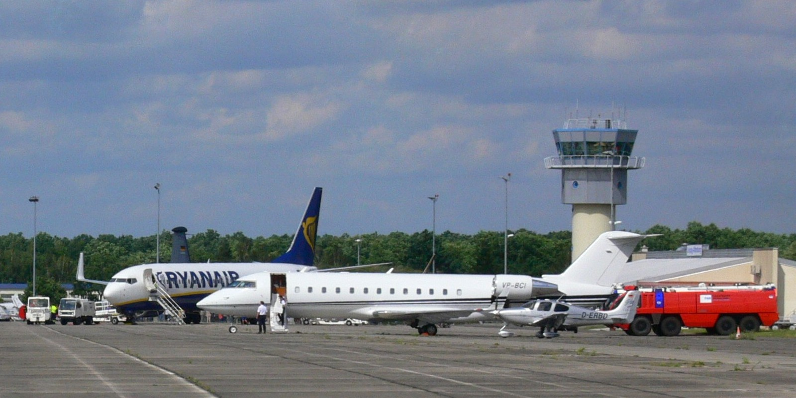 Apron Leipzig-Altenburg Airport. - Untitled (reg. VP-BCI) Canadair CL-600 and Ryanair Boeing 737-800 in background .